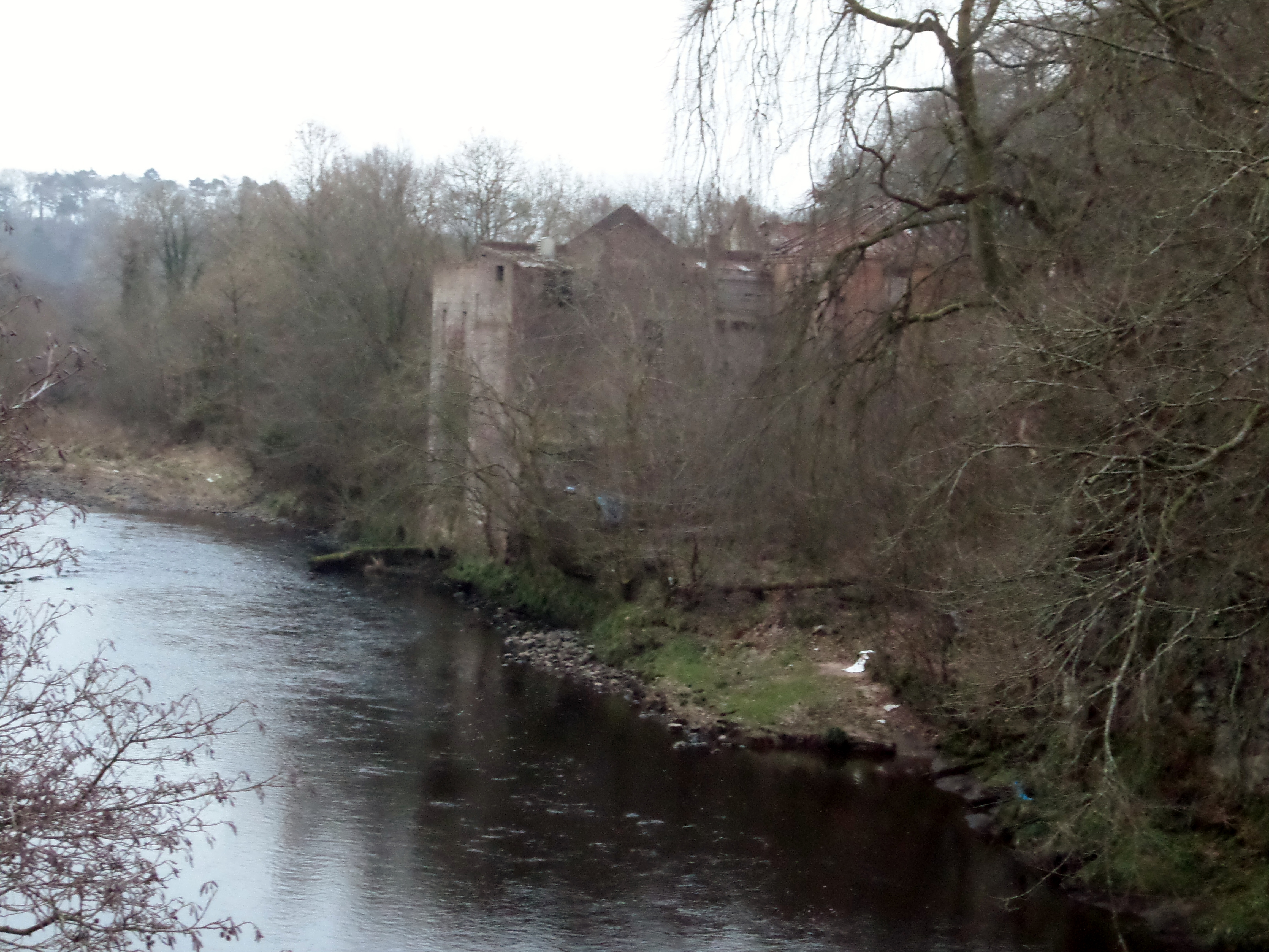 Barskimming Mill fron the Old Bridge, East Ayrshire, Scotland